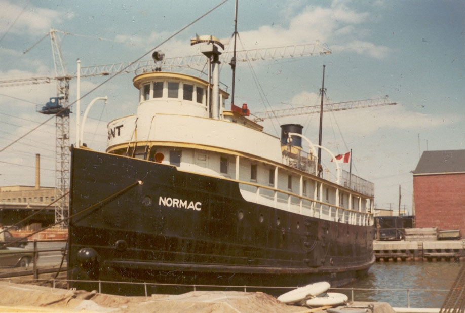 1970 photo by Brian Westhouse, Rexdale. a.k.a. Wrecksdale Wreck 04:52, 14 December 2006 (UTC) note: early stages of construction of Toronto Star Building at One Yonge Street, Toronto.